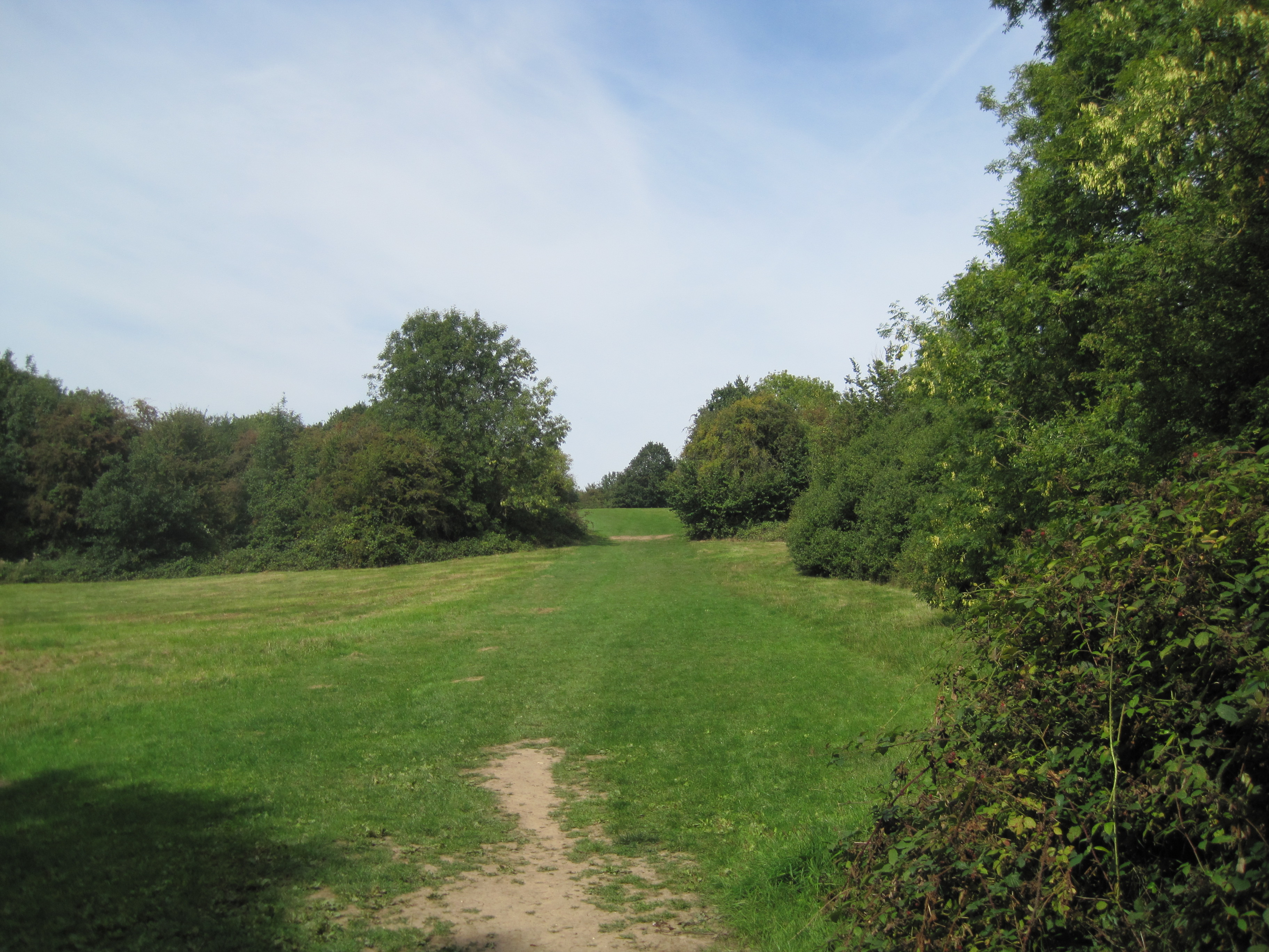 King George's Fields nature reserve, Chipping Barnet, London